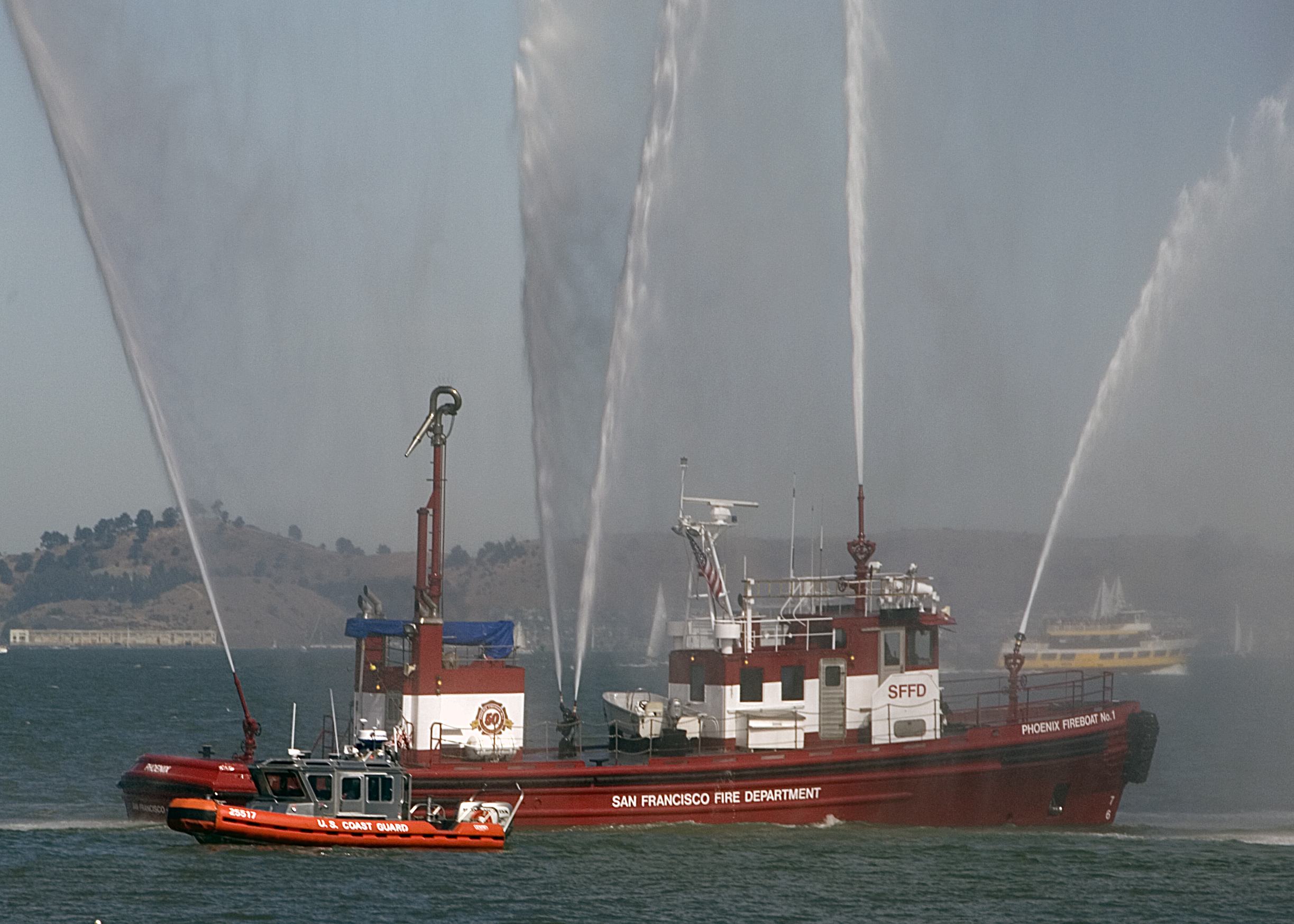 SAN FRANCISCO (Oct. 6, 2007)- The San Francisco Fire Department's fire boat, Phoenix, leads the Parade of Ships as they enter the bay, while a Coast Guard 25-foot boat enforces the security zone around the ships. The Parade of Ships is one of several activities that make up the annual Fleet Week event, which honors the men and women of the armed forces.